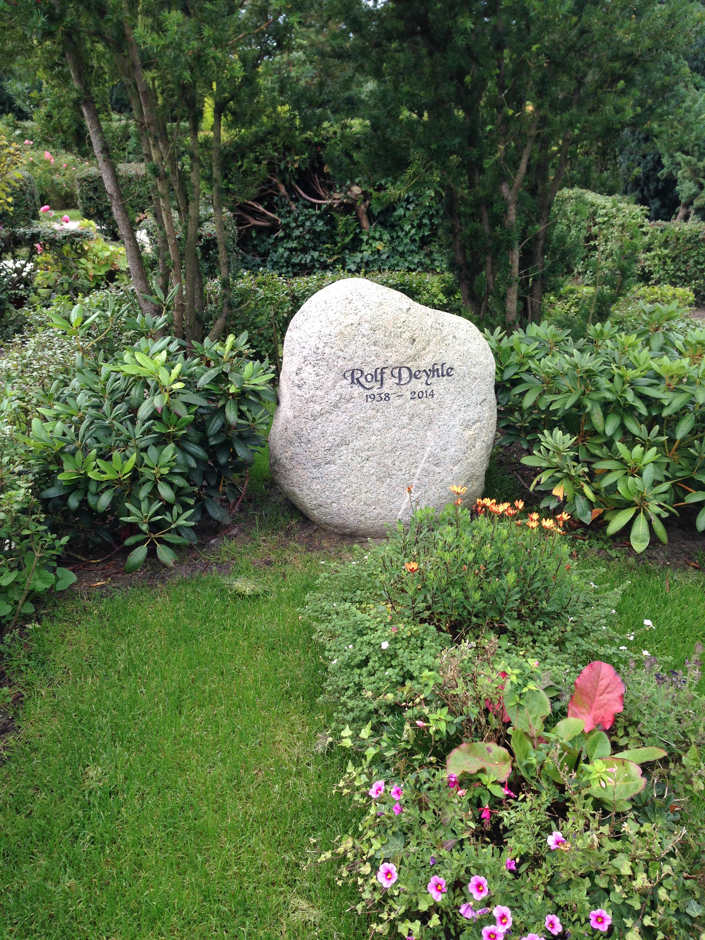 Grave in Keitum cemetery